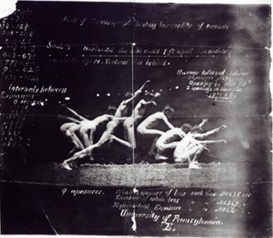 History of a Jump, 1885, chronophotography